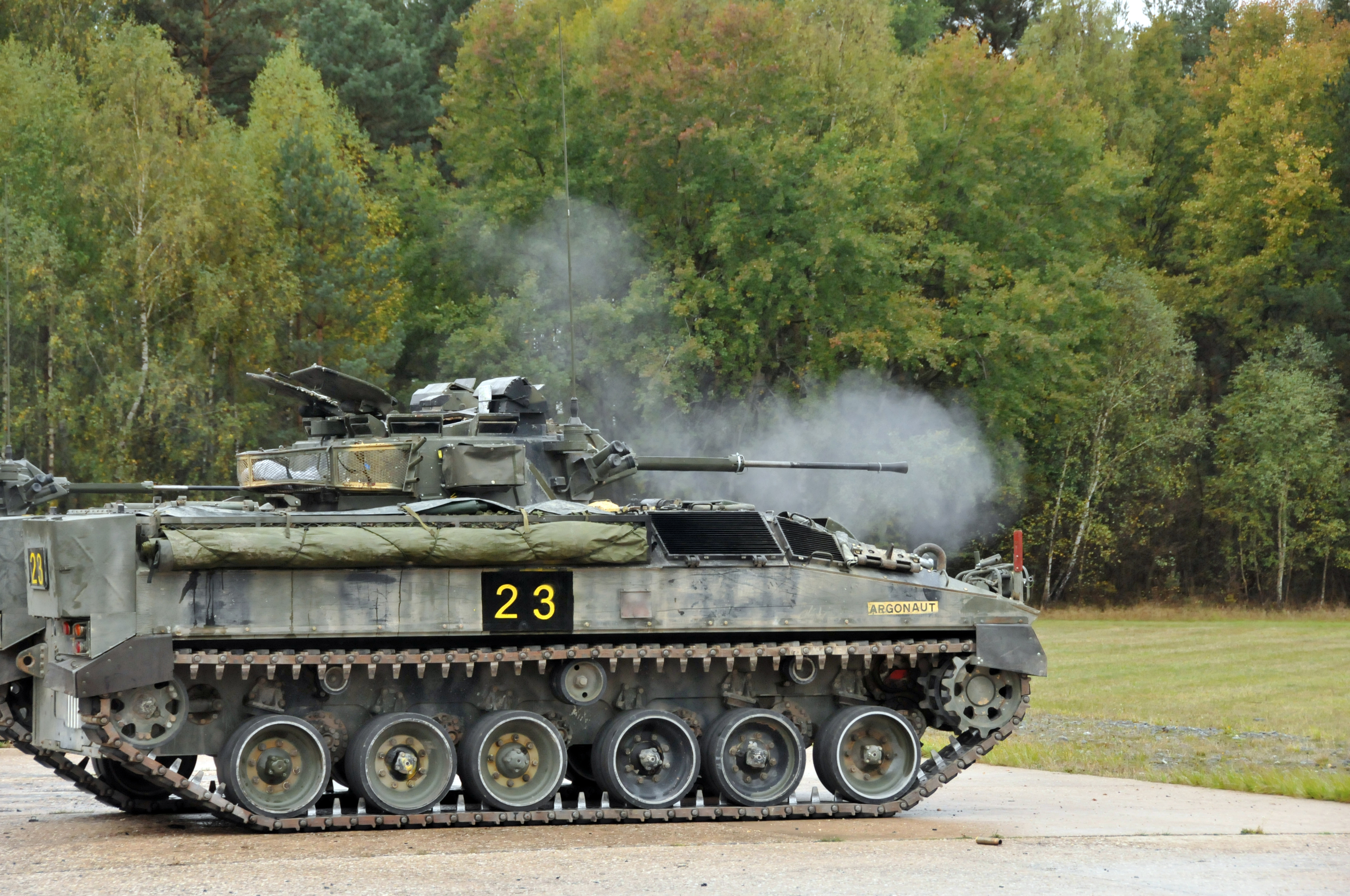 GRAFENWOEHR, Germany -- The United Kingdom’s 3rd Battalion, the Mercian Regiment fires a 5-11 Warrior Infantry Fighting Vehicle round at Grafenwoehr Training Area’s calibration range, Oct. 13. Forces from the United Kingdom are participating among 19 multinational nations training during Saber Junction 2012. U.S. Army Europe's exercise Saber Junction features the 2nd Cavalry Regiment, who trains with 1800 multinational partners from 18 nations ensuring interoperability and an agile, ready coalition force.